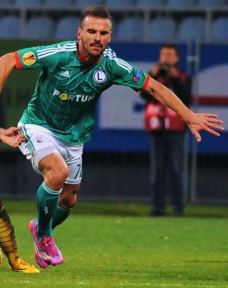 Orlando Sá